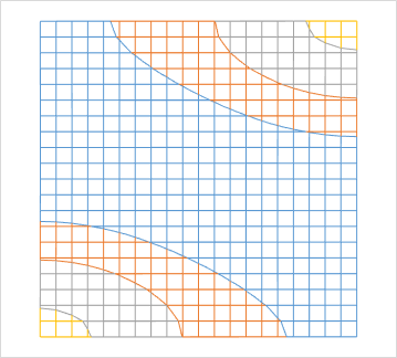 A dense two-dimensional pattern generated by four interfering beams exhibits significant rounding. There is sinusoidal intensity variation in both x and y directions. Ref.: M. Vala and J. Homola, Optics Express, vol. 22,18778 (2014).